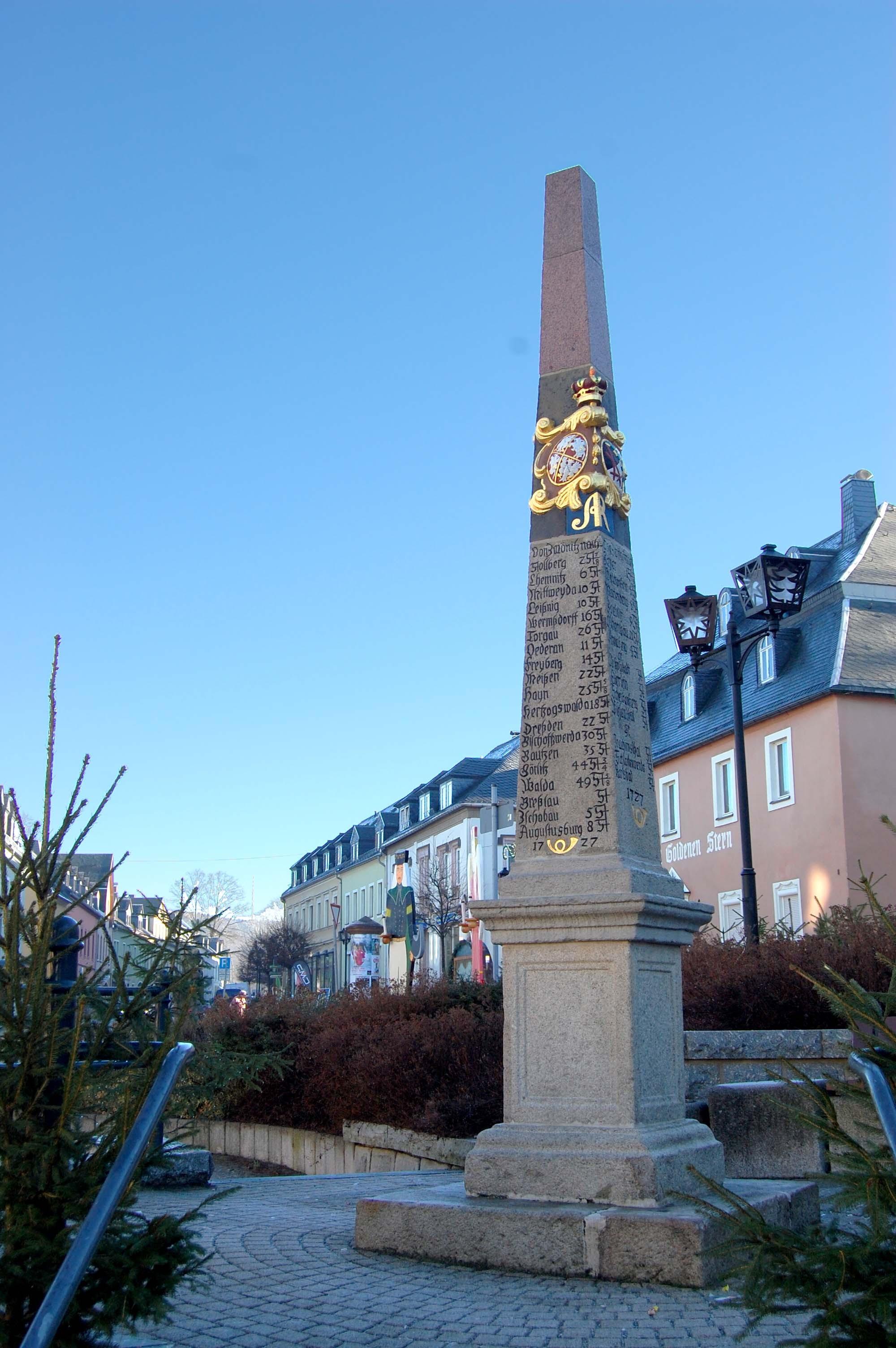 electoral-saxon posting milestone in Zwoenitz